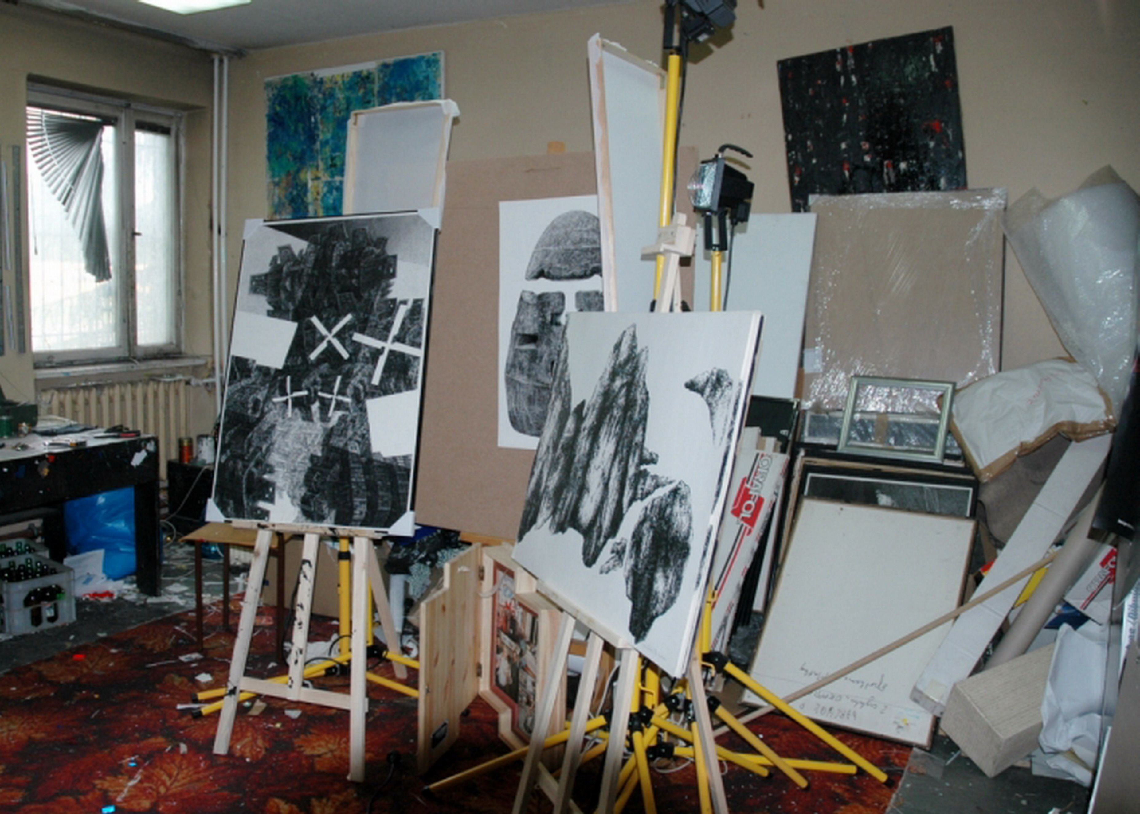 Paweł Warchoł’s atelier.